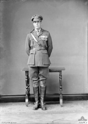 Full length portrait of Edgar Thomas Towner VC MC, an Australian recipient of the Victoria Cross during the First World War.